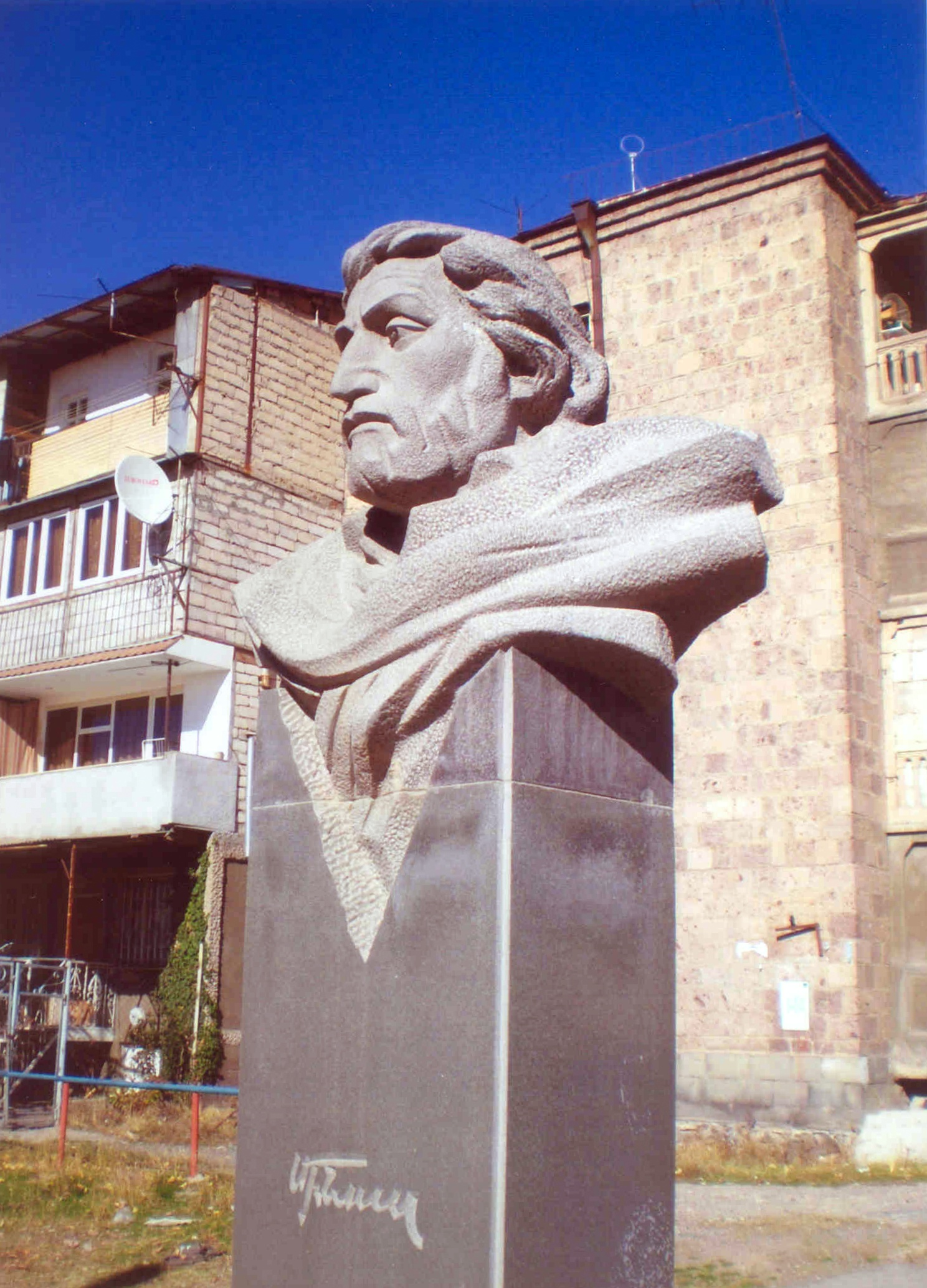 Minas Avetisyan bust, Zeytun Yerevan